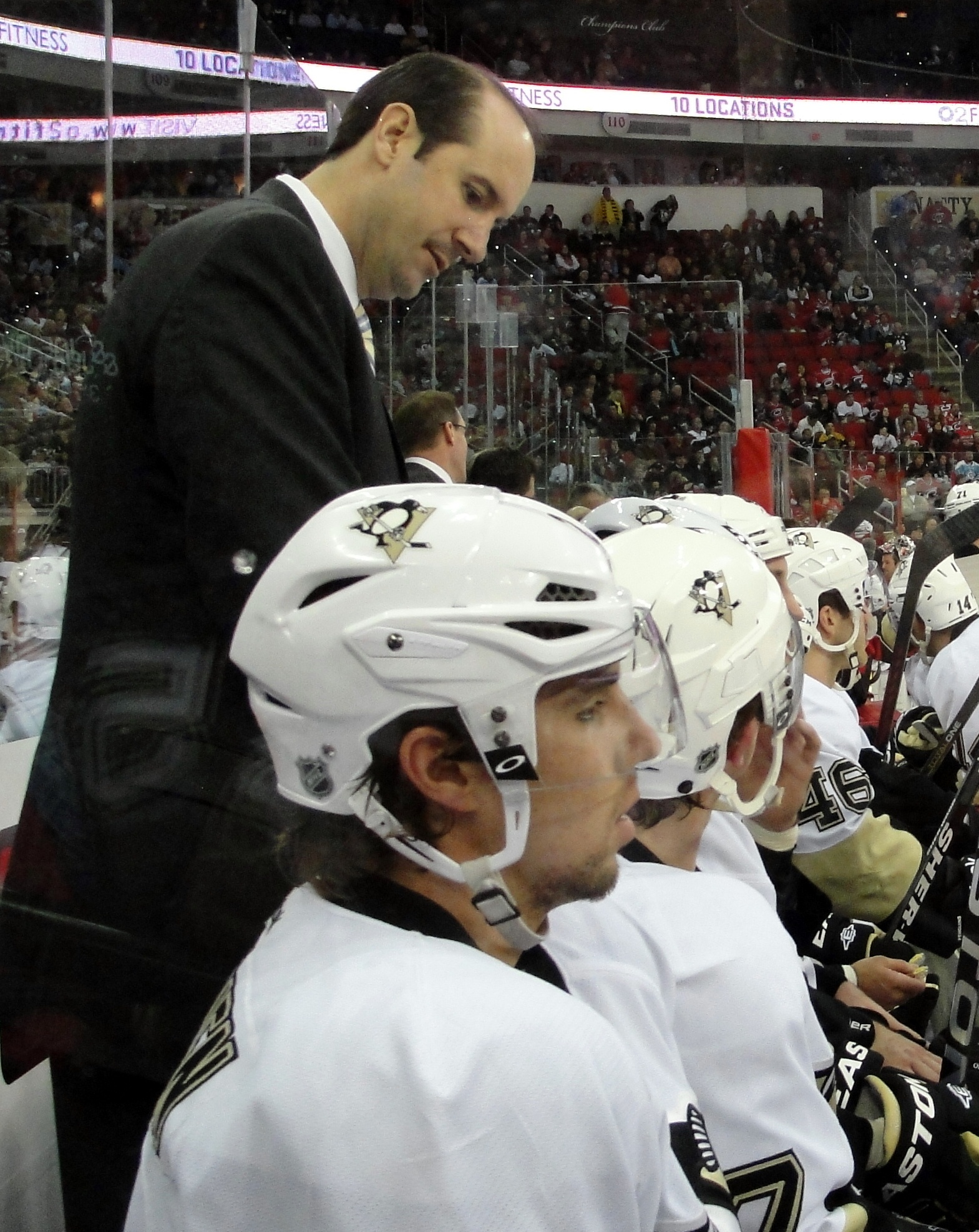 Pittsburgh Penguins Assistant Coach Todd Reirden mans the bench during a November 12, 2011 game against the Carolina Hurricanes at RBC Center in Raleigh, NC.